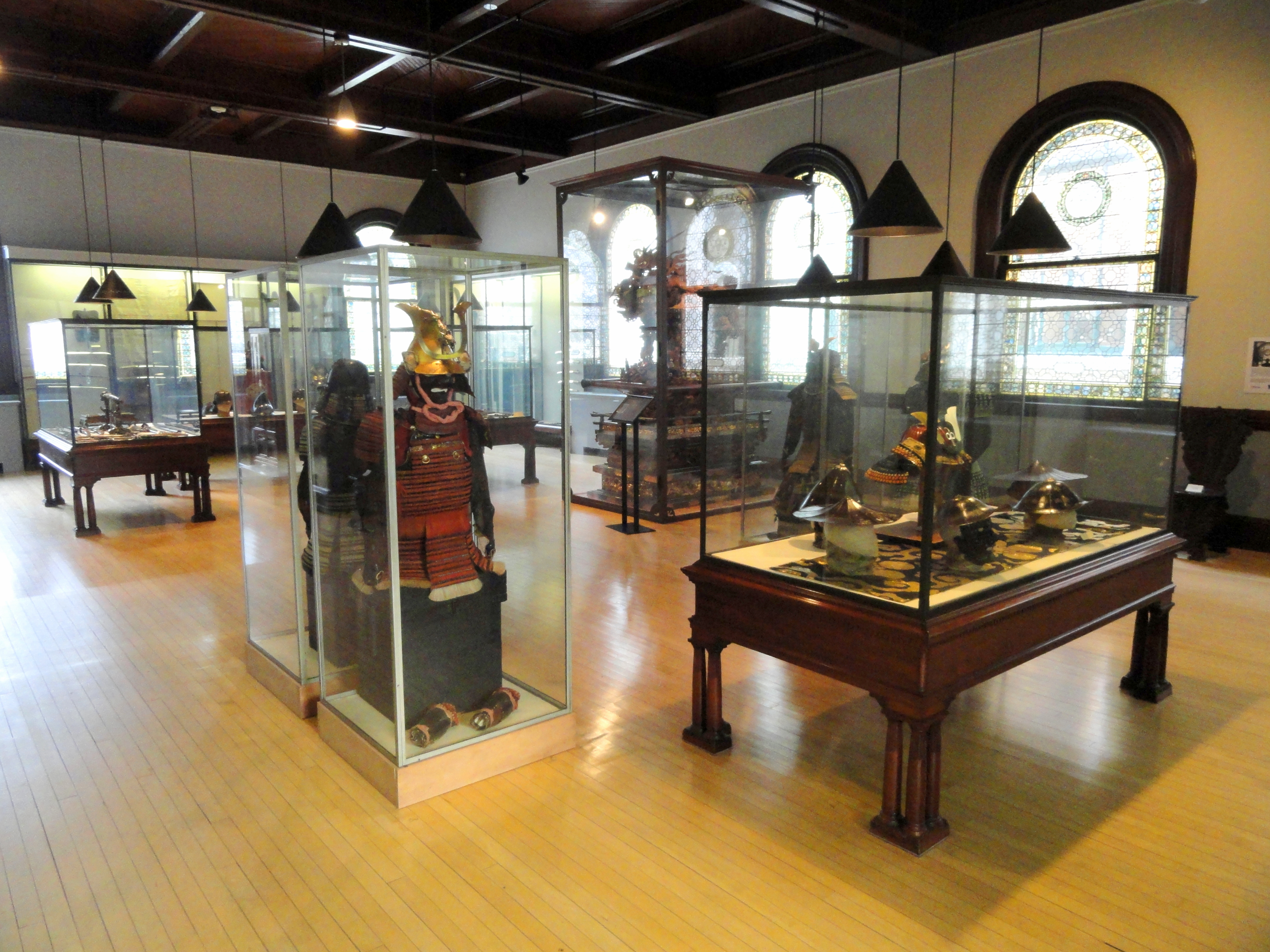 George Walter Vincent Smith Art Museum, 21 Edwards Street, Springfield, Massachusetts, USA. The museum permitted photography without restriction.